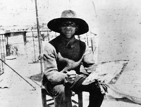 David Bomberg, British painter